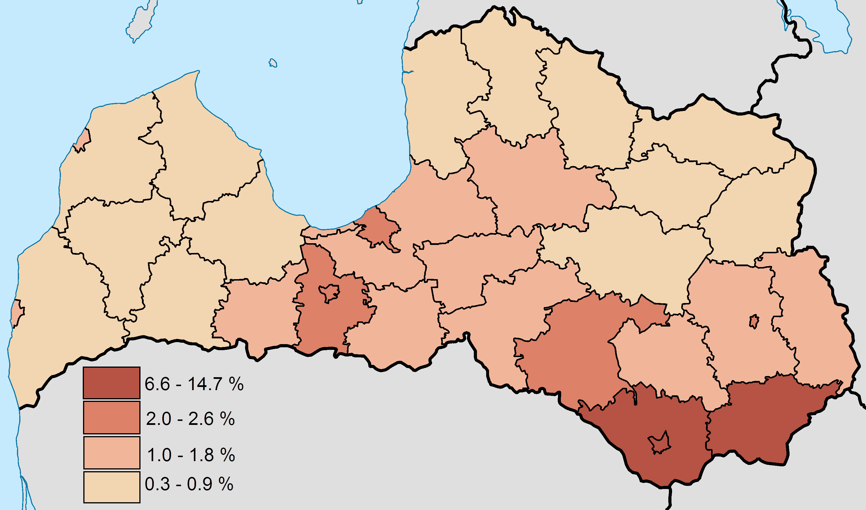 Percentage of ethnic Poles in Latvia, 1-st level divisions official 2008 estimations